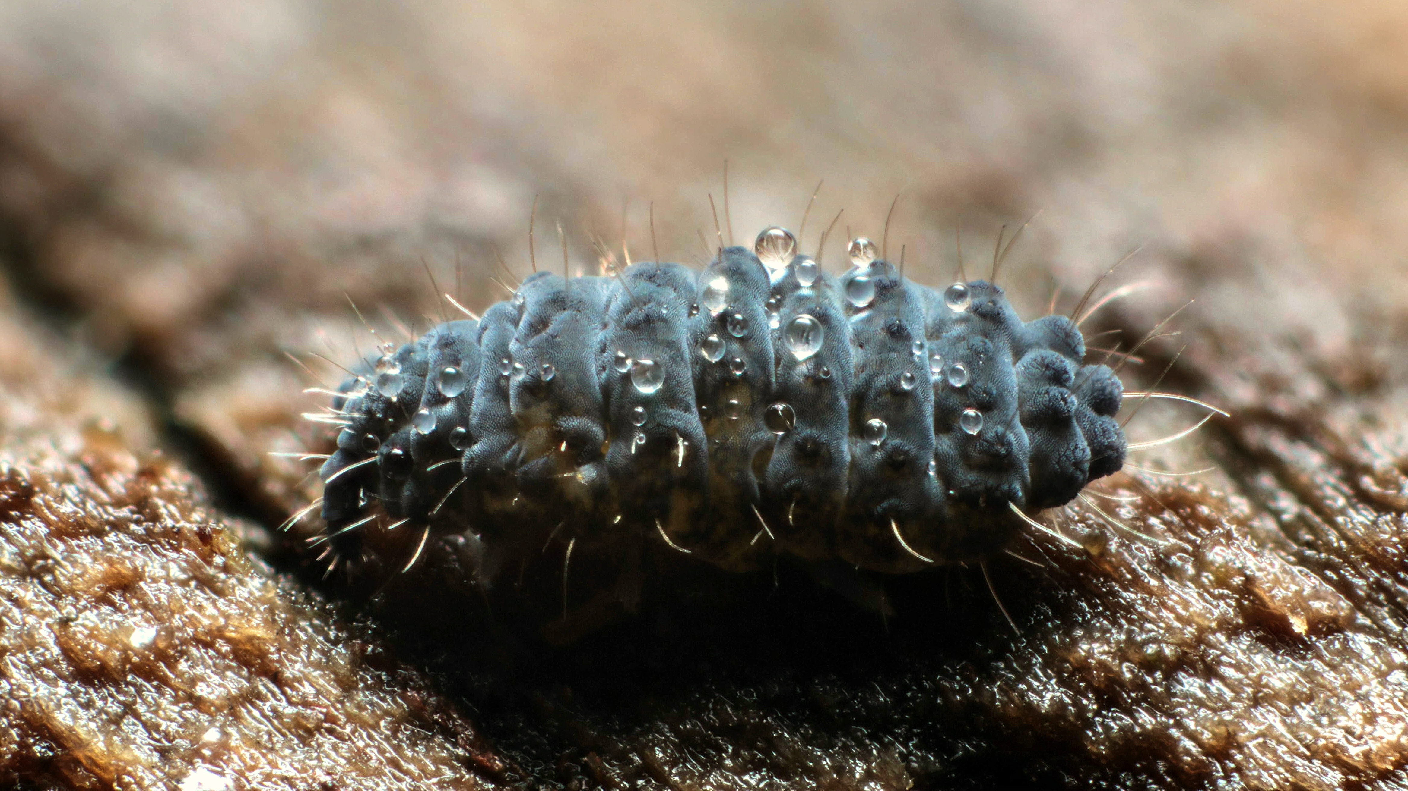 Neanura muscorum springtail. Original description on Flickr: This was a 15 photo stack, took three hours of complex, hard stacking which I stupidly started at 11.30 at night. Unfortunate. I couldn't stop once I'd started so had to just plough on. And the funny thing was that I had almost deleted all the photos a week ago as I thought the stack wasn't worth doing. Now I've done it, I'm pretty chuffed with it. It's worth seeing in the large original, as the skin looks like mole fur! This was on a very cold morning so the springy didn't move until I'd taken a load of photos. Lovely little thing.